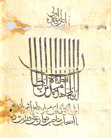 Tughra from a scroll issued by Muhammad ibn Tughluq at Delhi